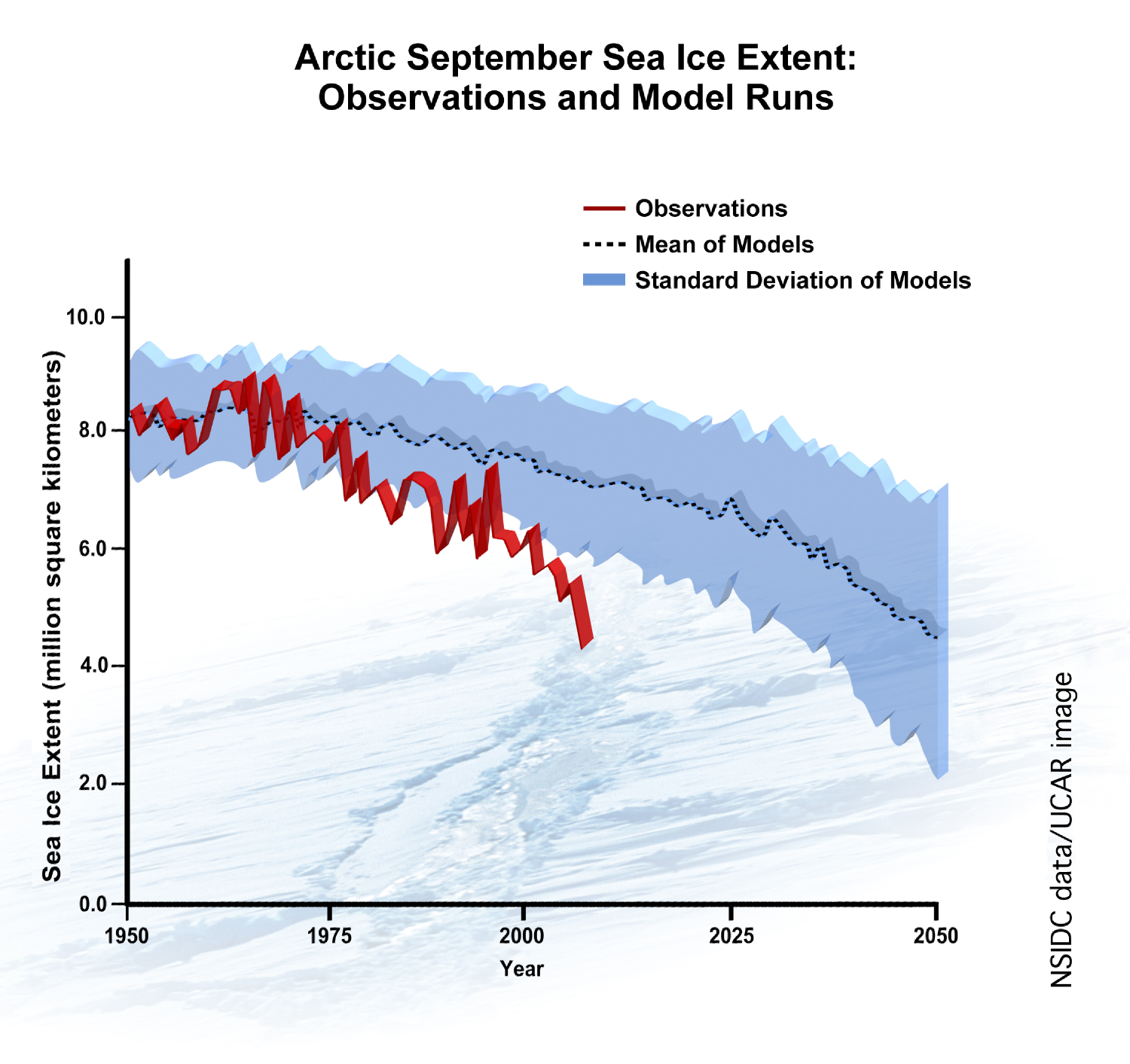 Arctic September Sea Ice Extent: Observations vs. Computer Model Runs - Scientists at the National Snow Ice Data Center (NSIDC) and the National Center for Atmospheric Research (NCAR) found that satellite and other observations show the Arctic ice cover is retreating more rapidly than estimated by any of the eighteen computer models used by the Intergovernmental Panel on Climate Change (IPCC) in preparing its 2007 assessments.